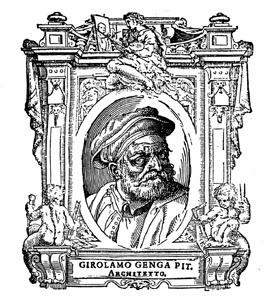 Illustratio from "Le Vite" by Giorgio Vasari, edition of 1568. For the artist portrayed see filename